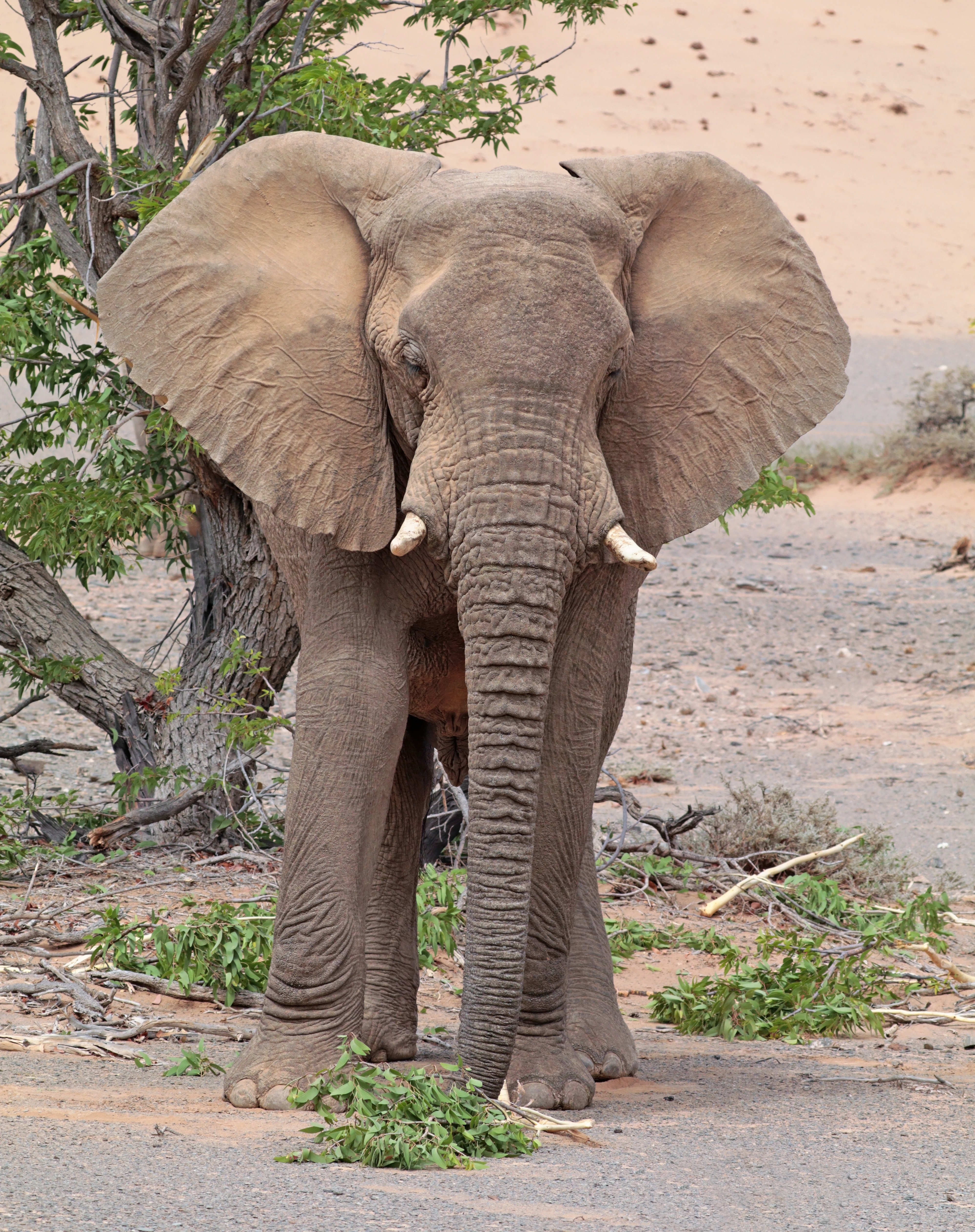 Desert elephant (Loxodonta africana) male, Damaraland, Namibia